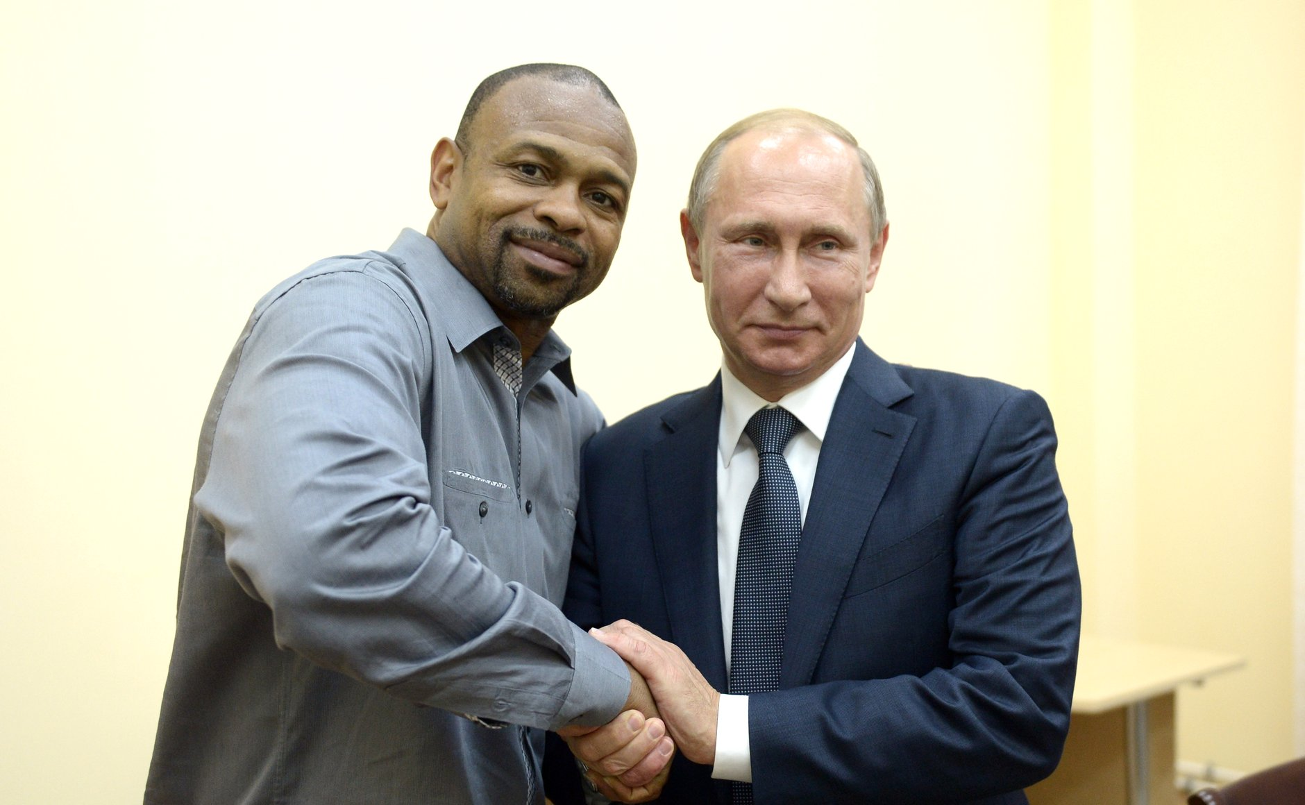 Meeting Vladimir Putinf with the boxer Roy Jones in Sevastopol, the Republic of Crimea